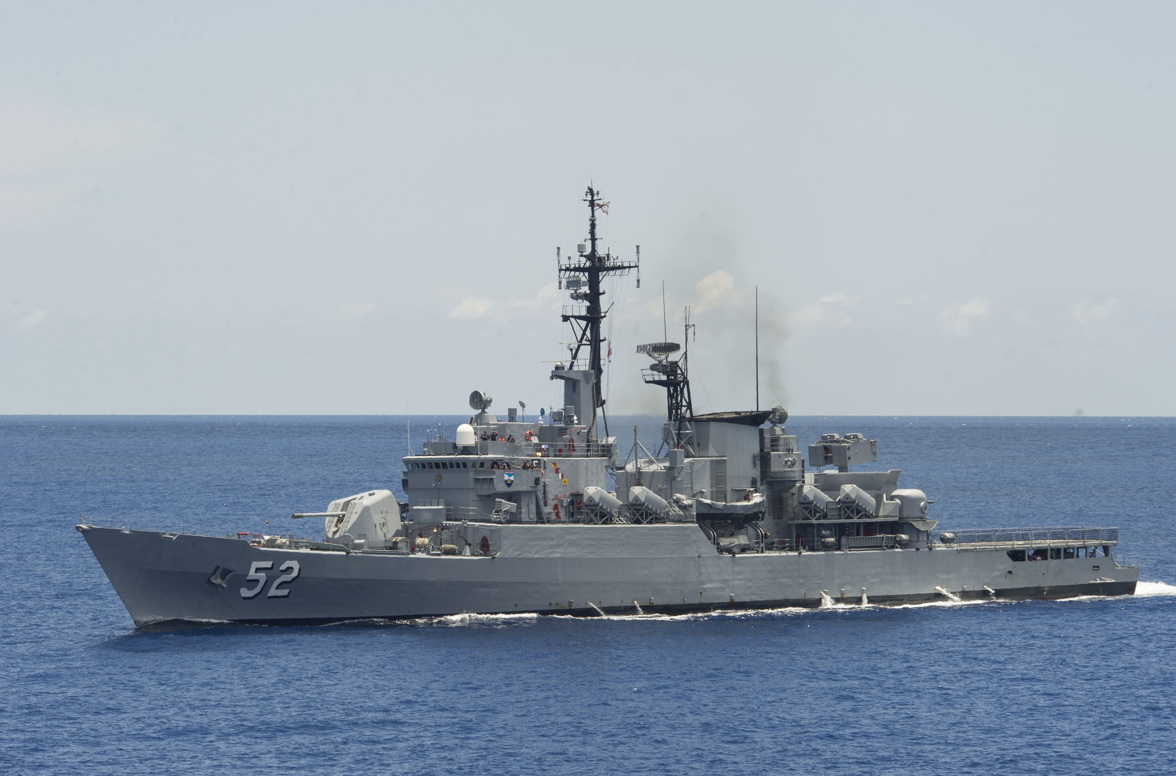 The Peruvian frigate BAP Villavicencio (FM 52) underway in the Straits of Florida.